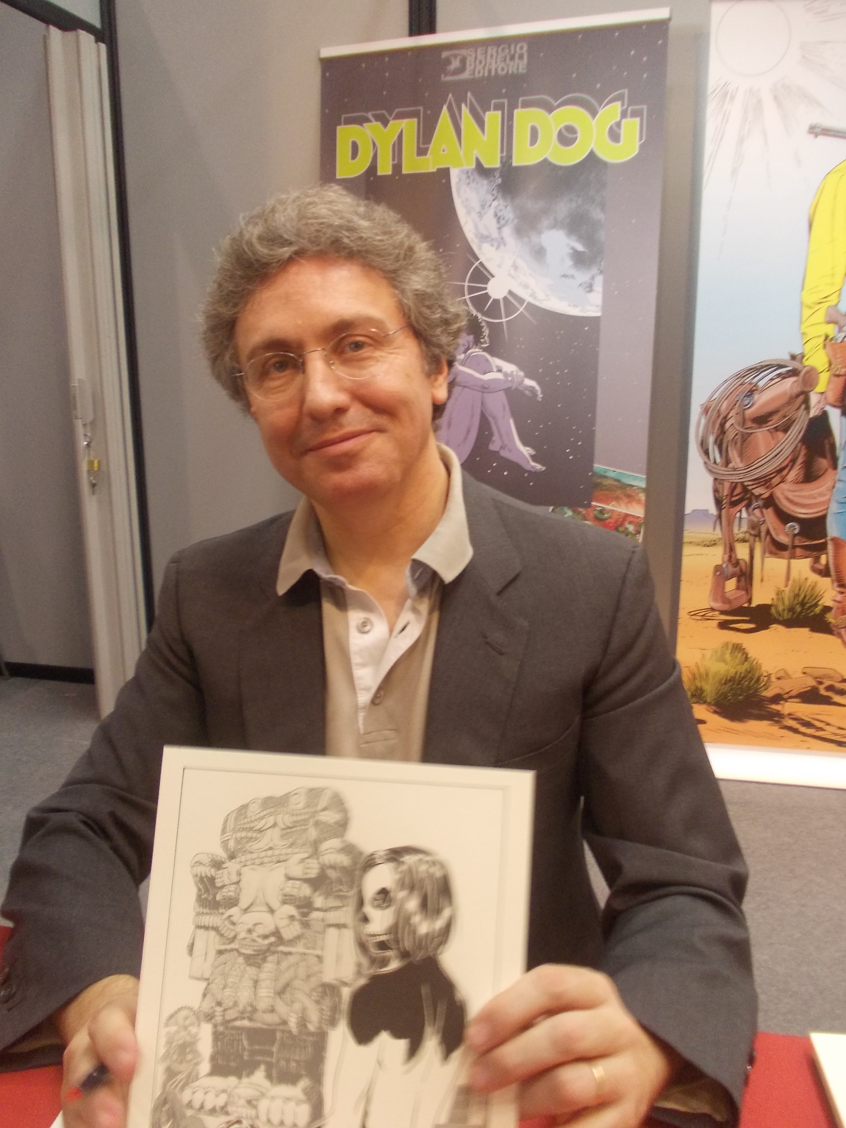 Luca Enoch, Italian comic artist at Romics convention, october 2014